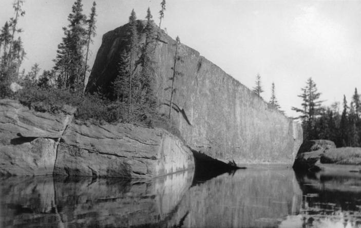 Photograph, Steamboat Rock, Lac-à-la-Pêche, Grand'Mère, QC, copied 1929, Anonymous, Silver salts on glass - Gelatin dry plate process - 12 x 17 cm